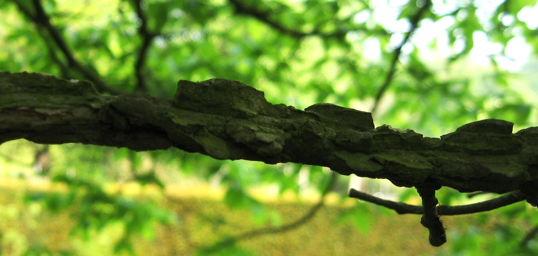 Photo of Ulmus thomasii twig cork wings, Meisse.